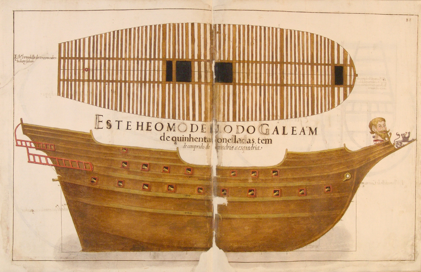 A techincal drawing of a late 16th century and early 17th century 500 tonne Portuguese galleon. Featured in the Portuguese ship-building treatise Livro de Traças de Carpintaria, or "Book of Draughts of Shipwrightry", compiled by the shipyard official Manuel Fernandes. 500 tonnes indicates the tonnage (cargo capacity) of the ship below the main deck, as per Portuguese regulations in the 16th and 17th century.